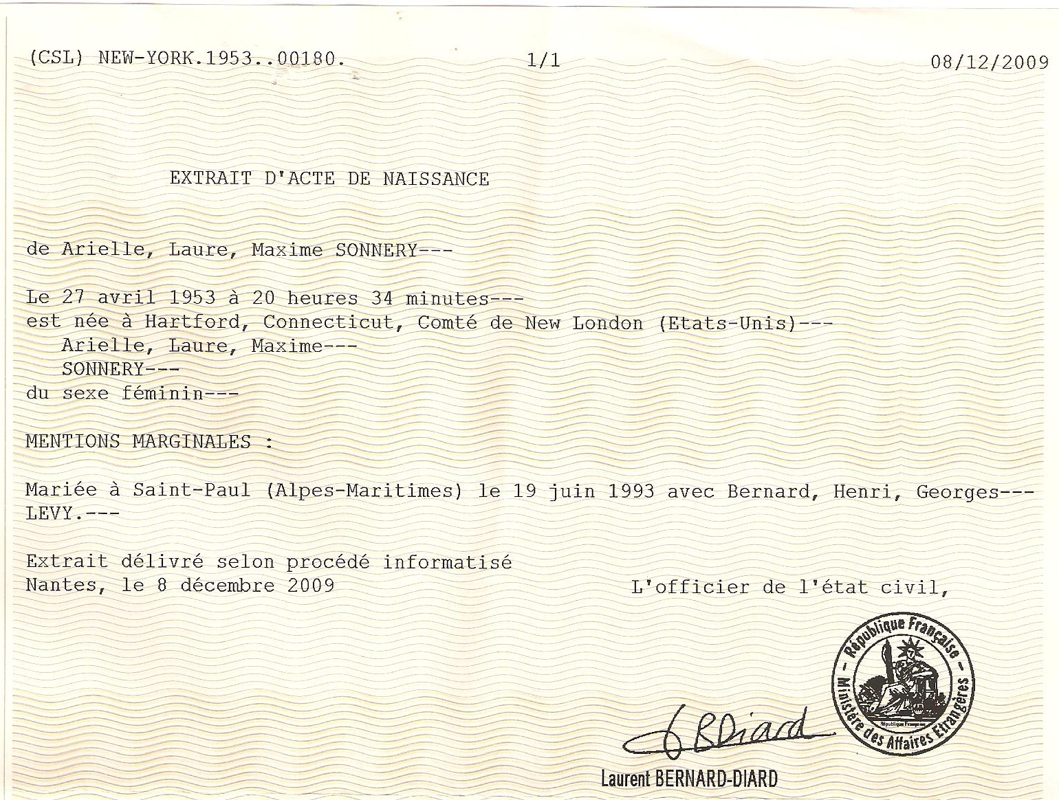 Birth certificate of actress Arielle Dombasle.